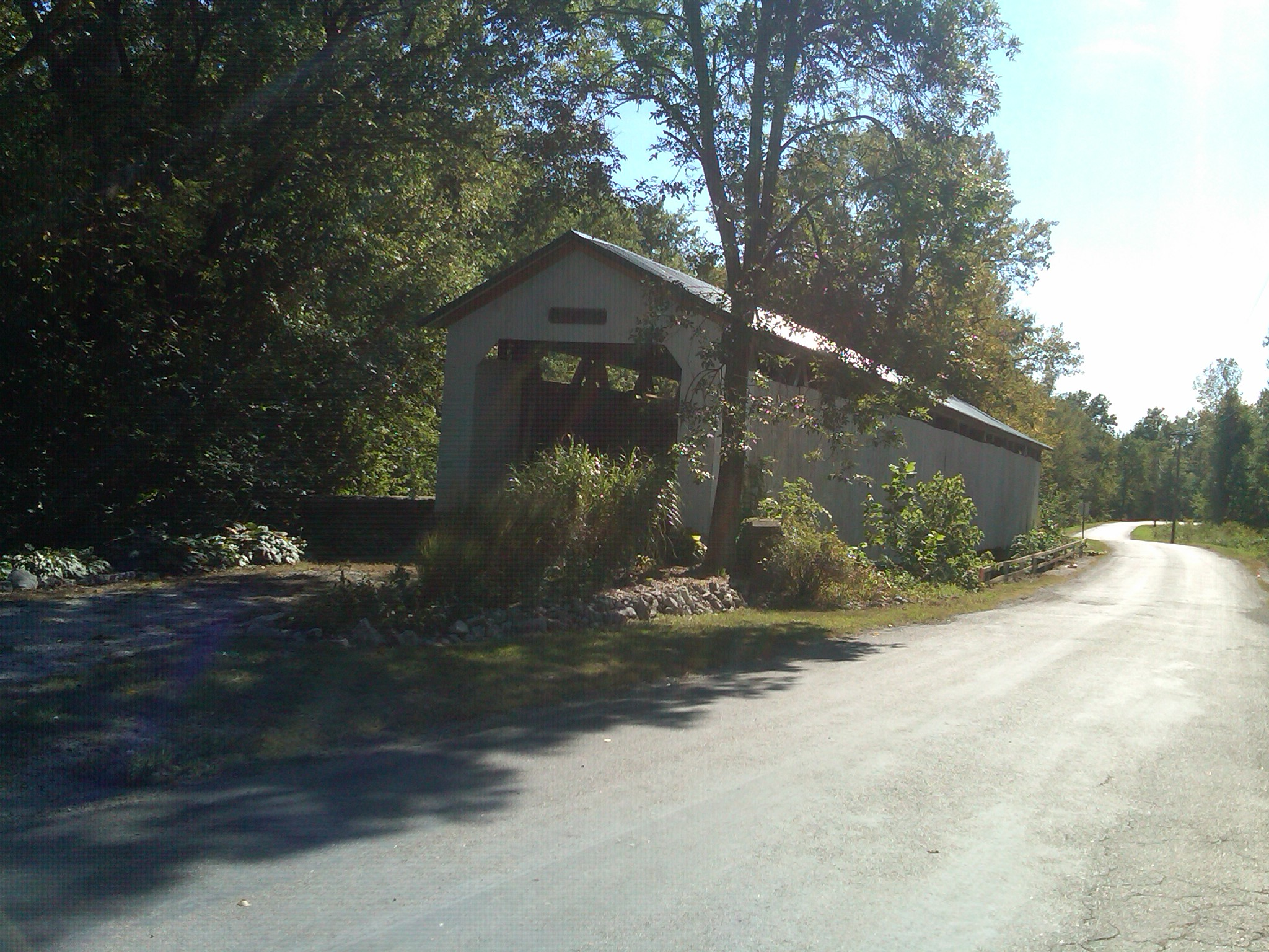 Wheeling Covered Bridge built in 1877 North of Francisco IN. Photo 2010